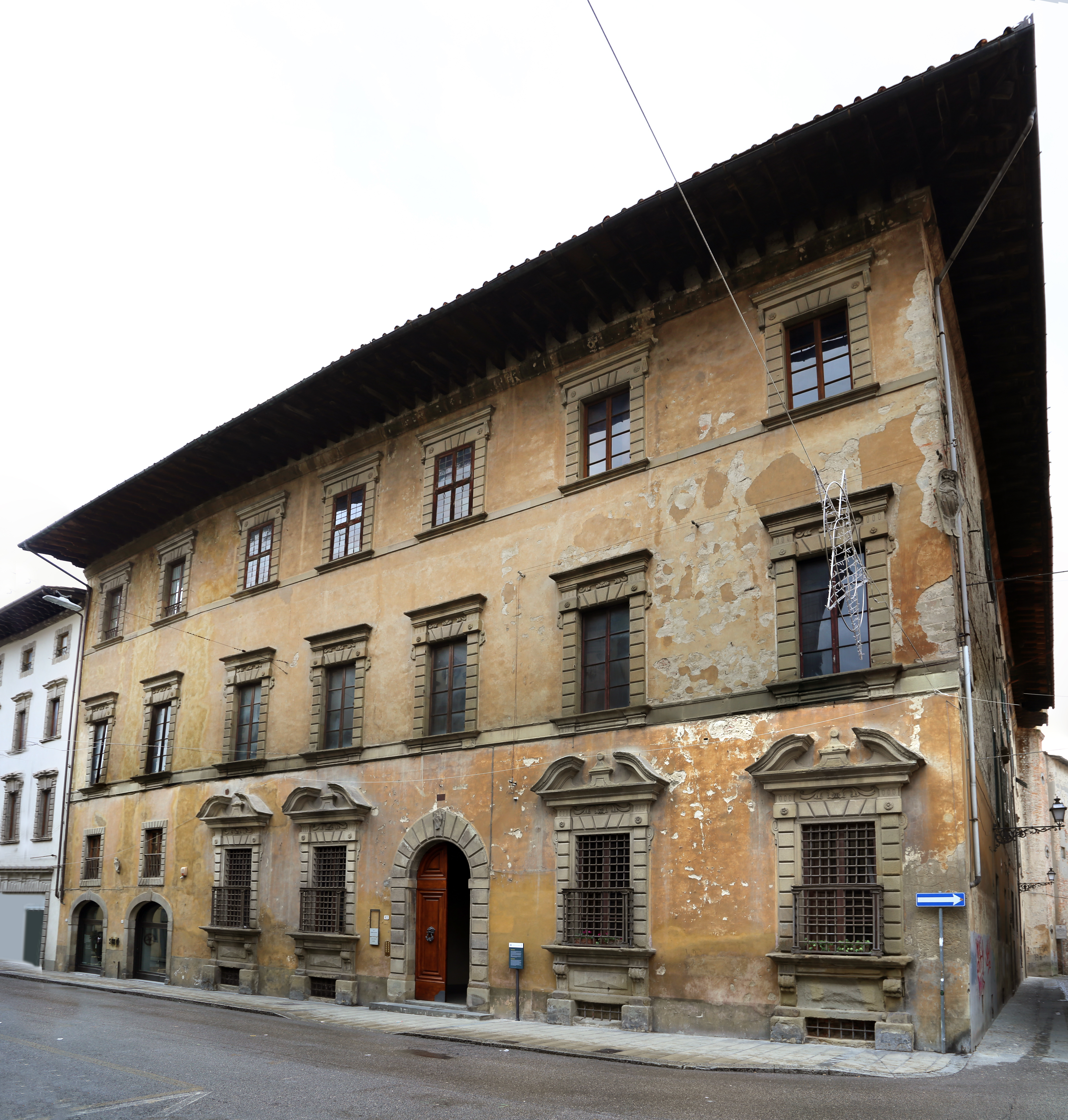 Palaces in Pistoia